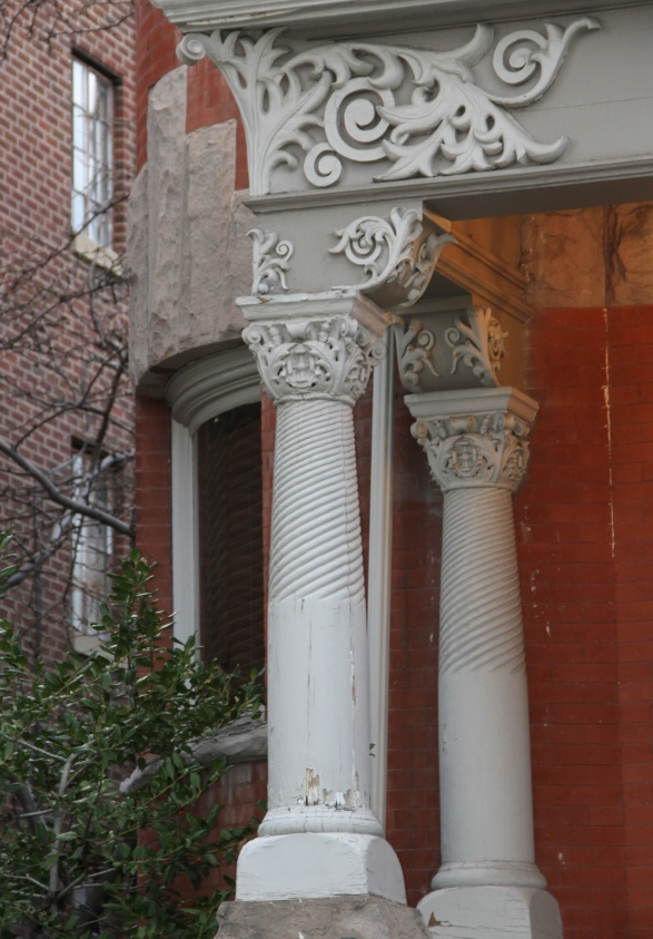 Squat Romanesque columns with foliated capitals are seen on the porch of the house.